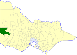 Location of the former Shire of Kowree within Victoria.